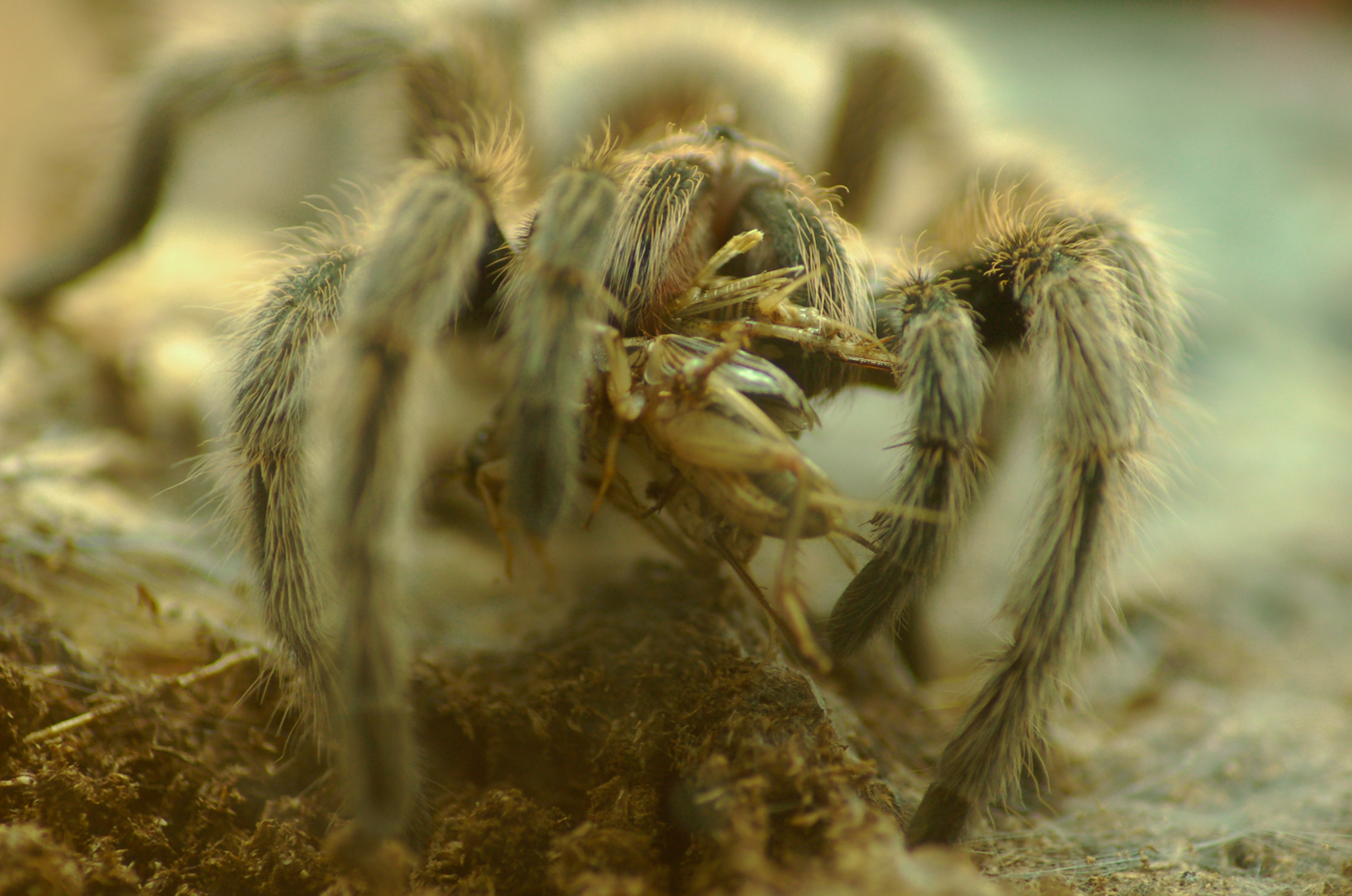 Chilean spider eating hair brushed